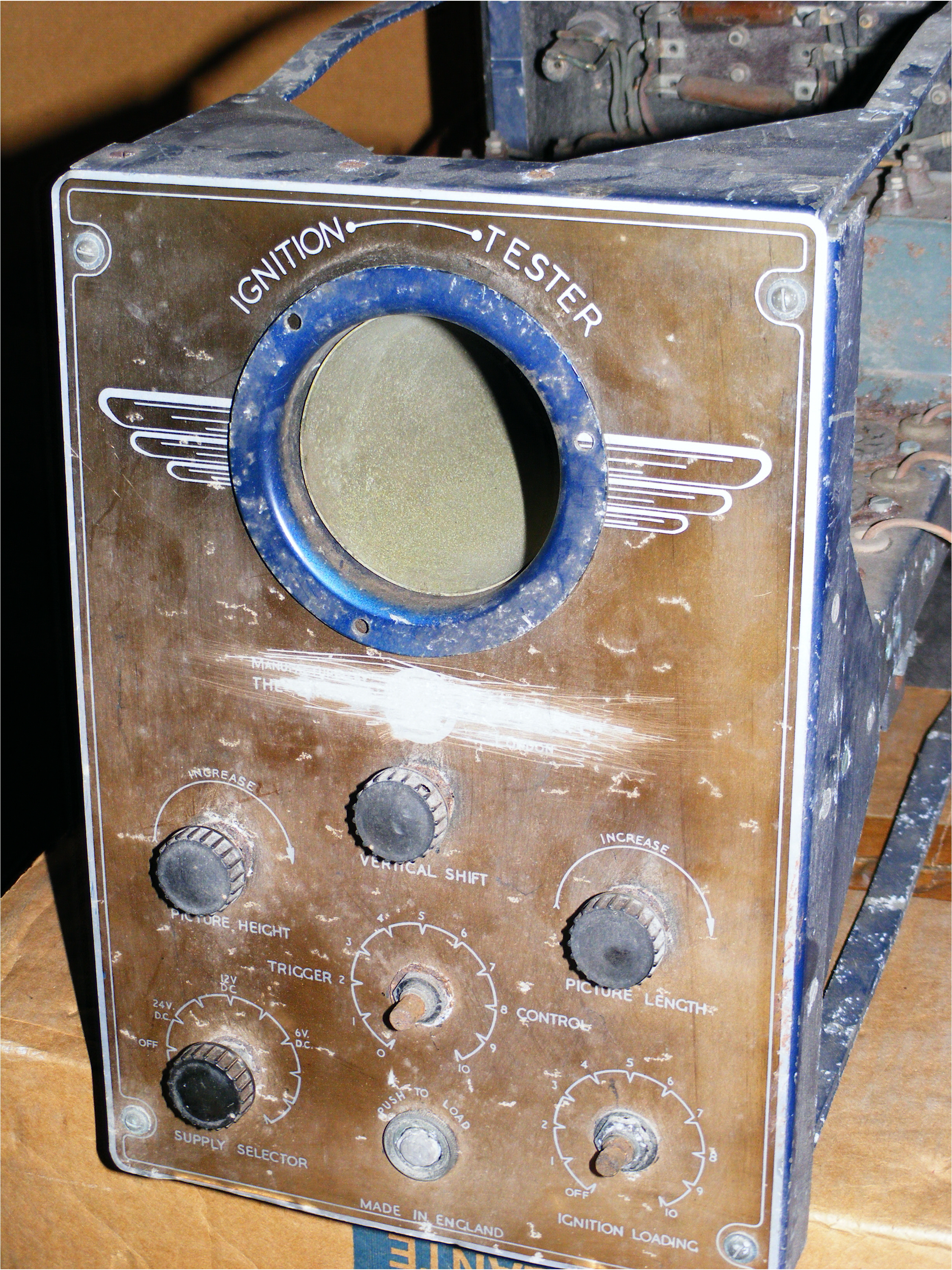 "Igniscope" ignition tester, poor condition with cathode ray tube and outer case missing. English Electric name and logo scratched out.